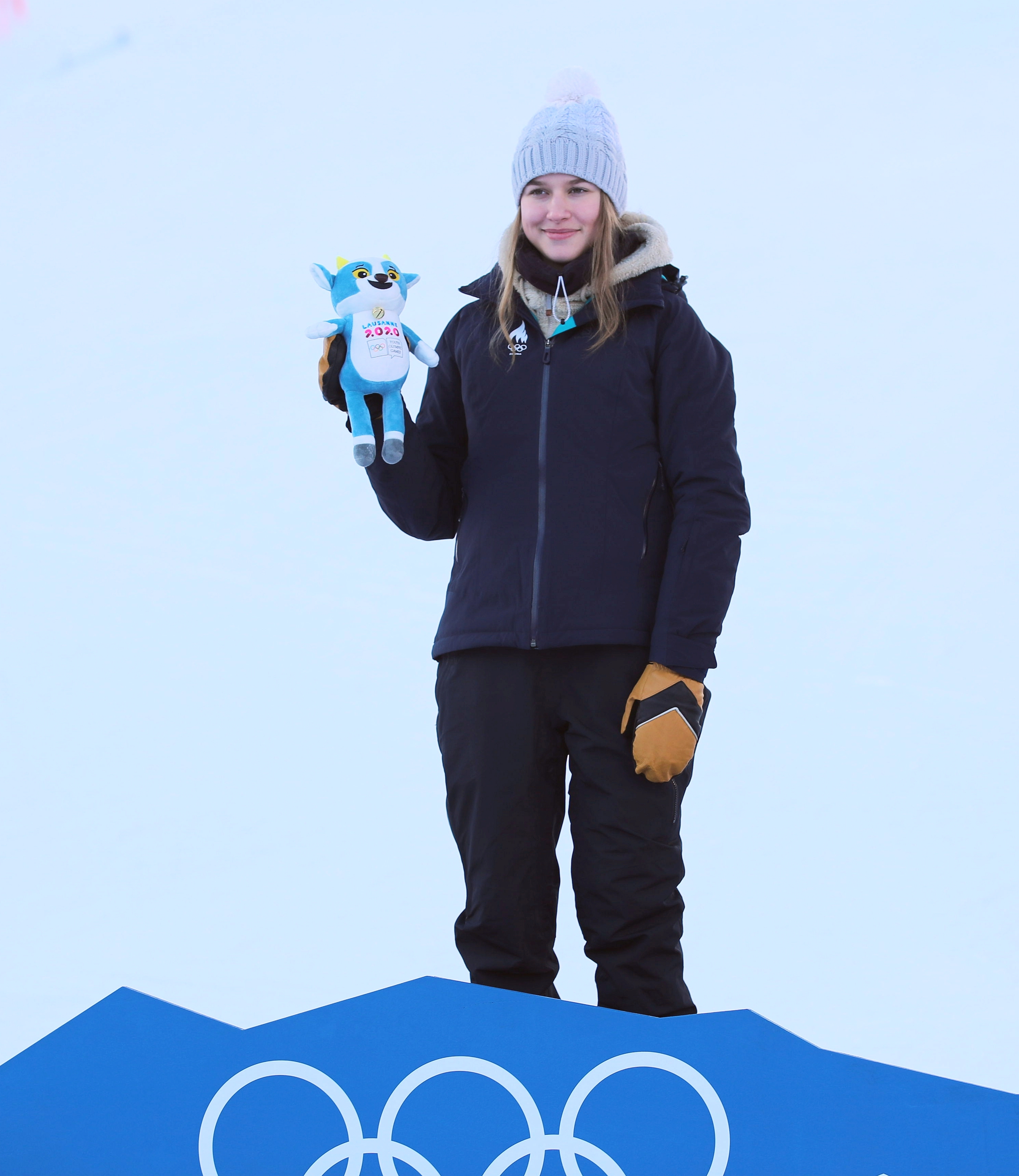 Mascot Ceremony of Freestyle skiing – Women's Freestyle Slopestyle at the 2020 Winter Youth Olympics in Lausanne on 18 January 2020.